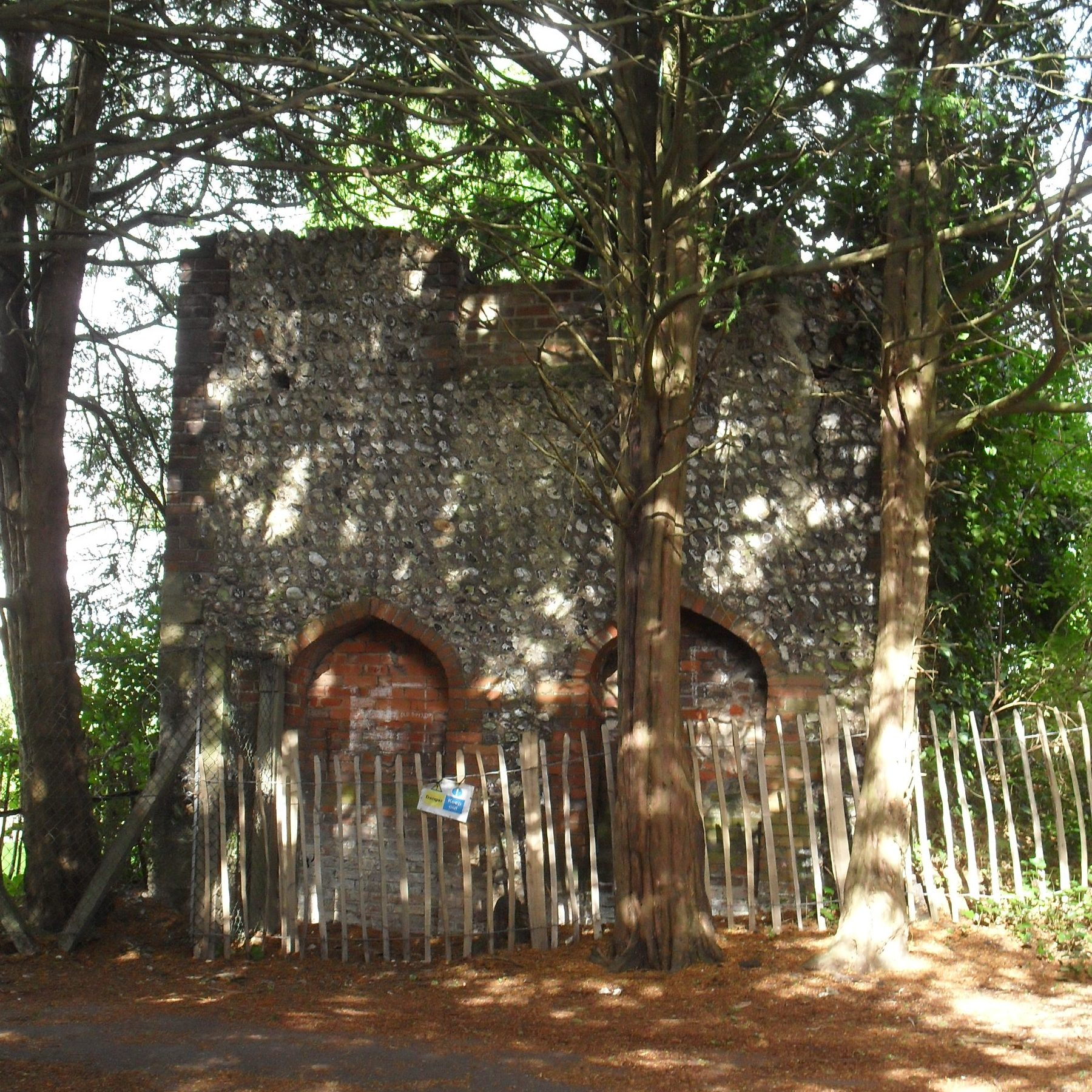 Wellhouse at Preston Manor, Preston Drove, Preston Village, City of Brighton and Hove, East Sussex. This ruined wellhouse stands in the grounds of Preston Manor, and was built at about the same (1738) as the manor house was rebuilt from its 13th-century origins. Listed at Grade II by English Heritage (IoE Code 481076)